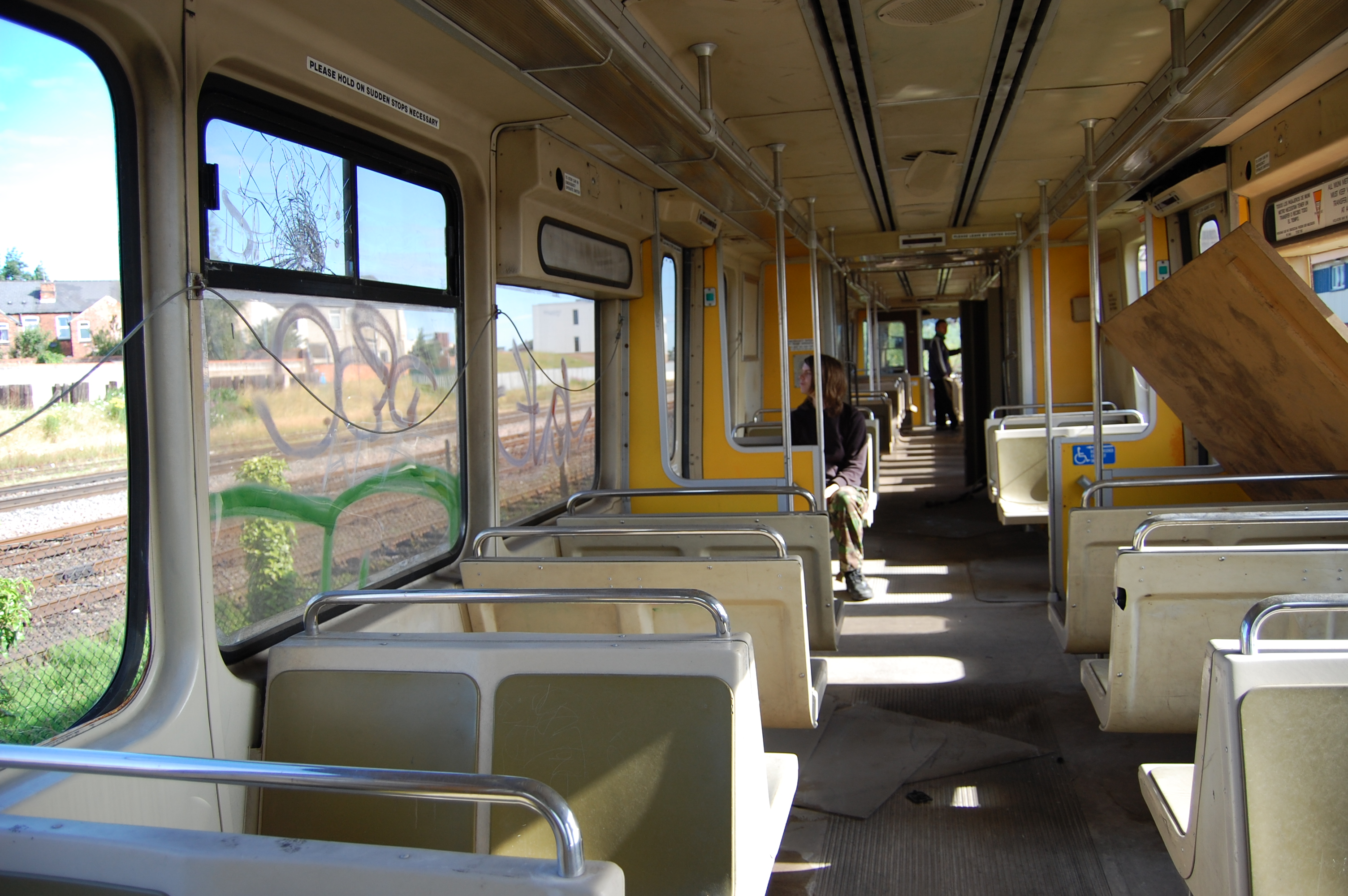 Self portrait, me in the foreground with 'Saigon_Ob' at the back Self Portrait - American Light Rail Vehicle, Derby